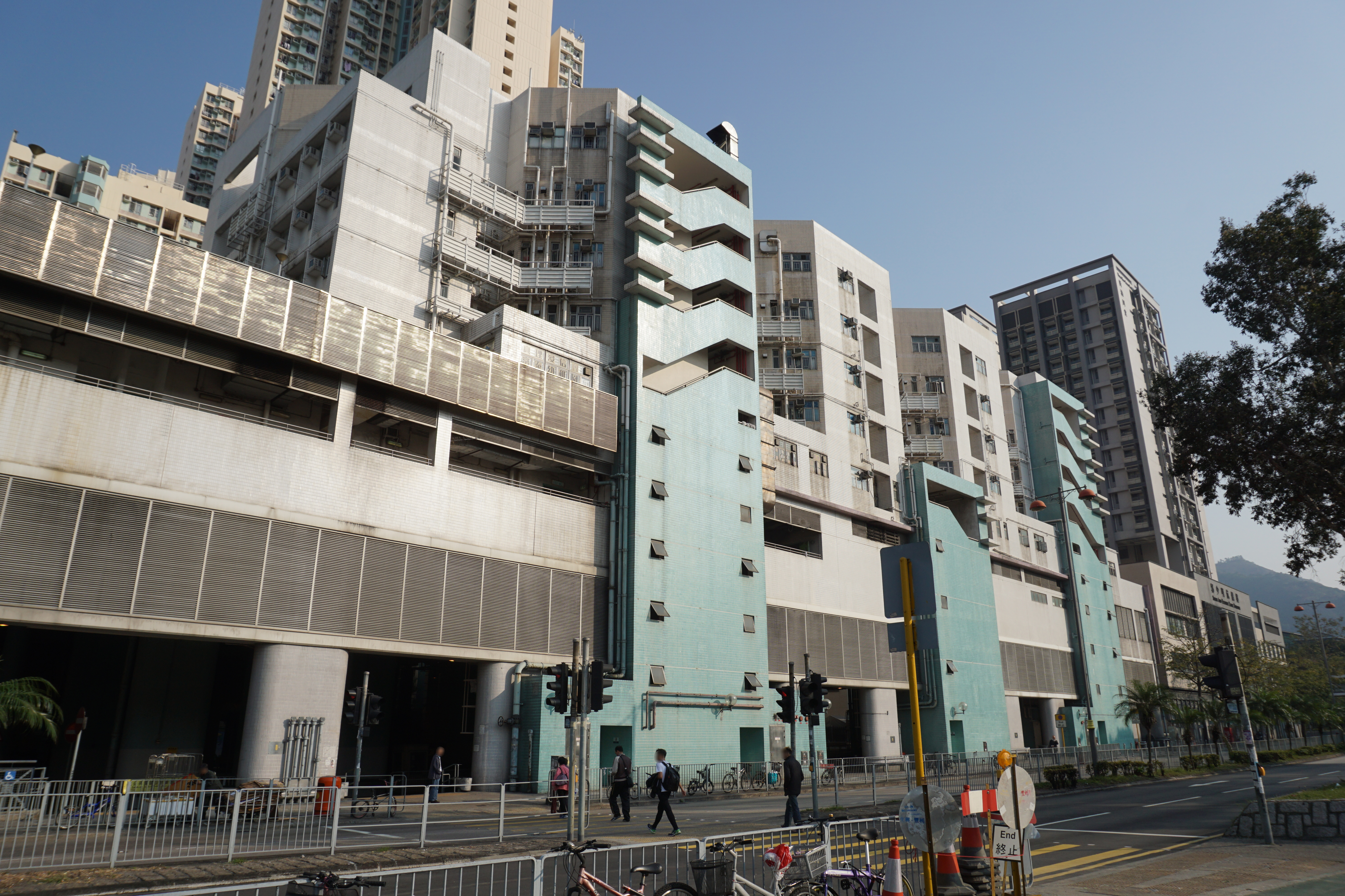 Fu Tai Estate in Tuen Mun, Hong Kong.